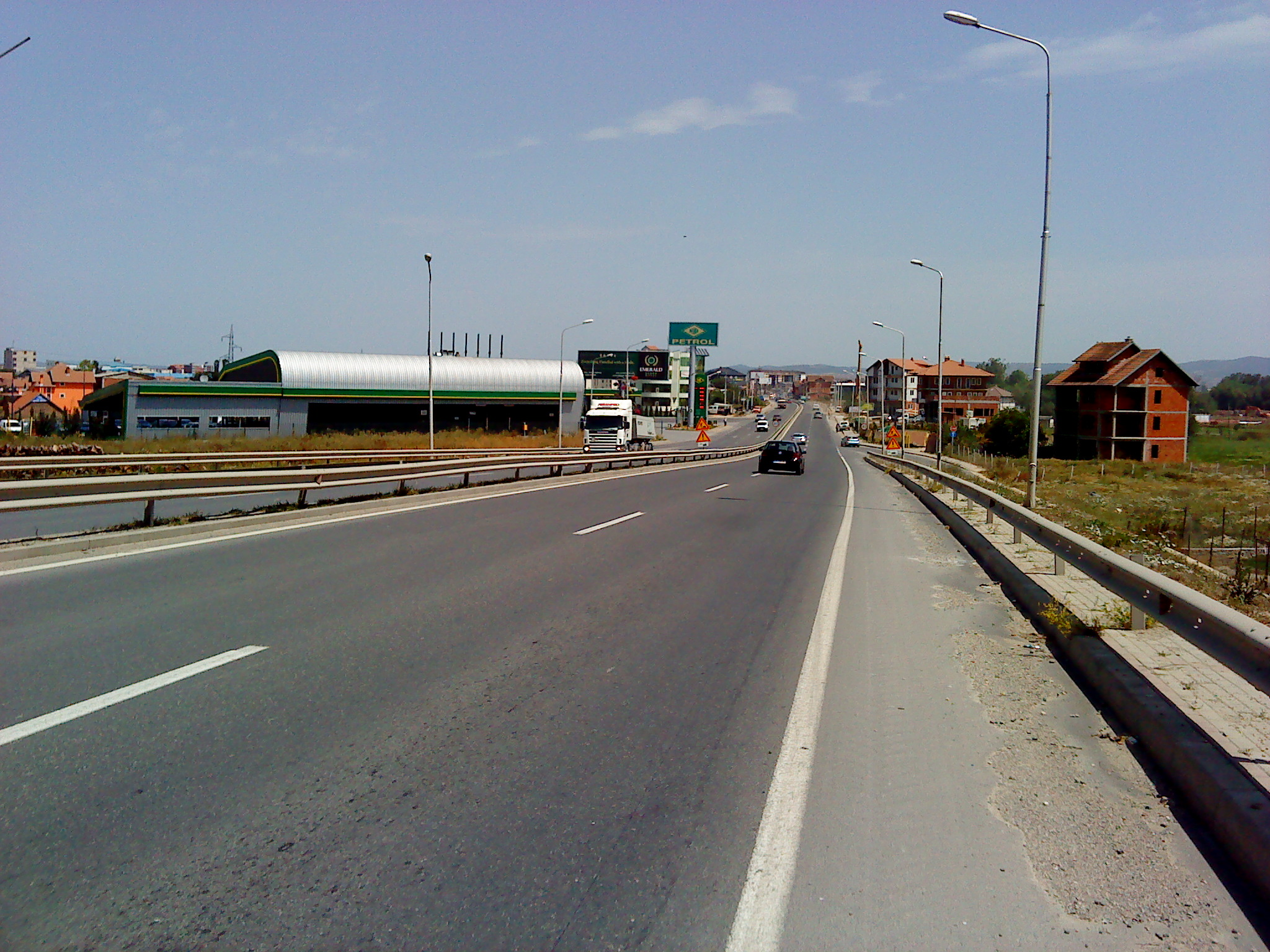 National Street M9 in Kosovo west of Pristina